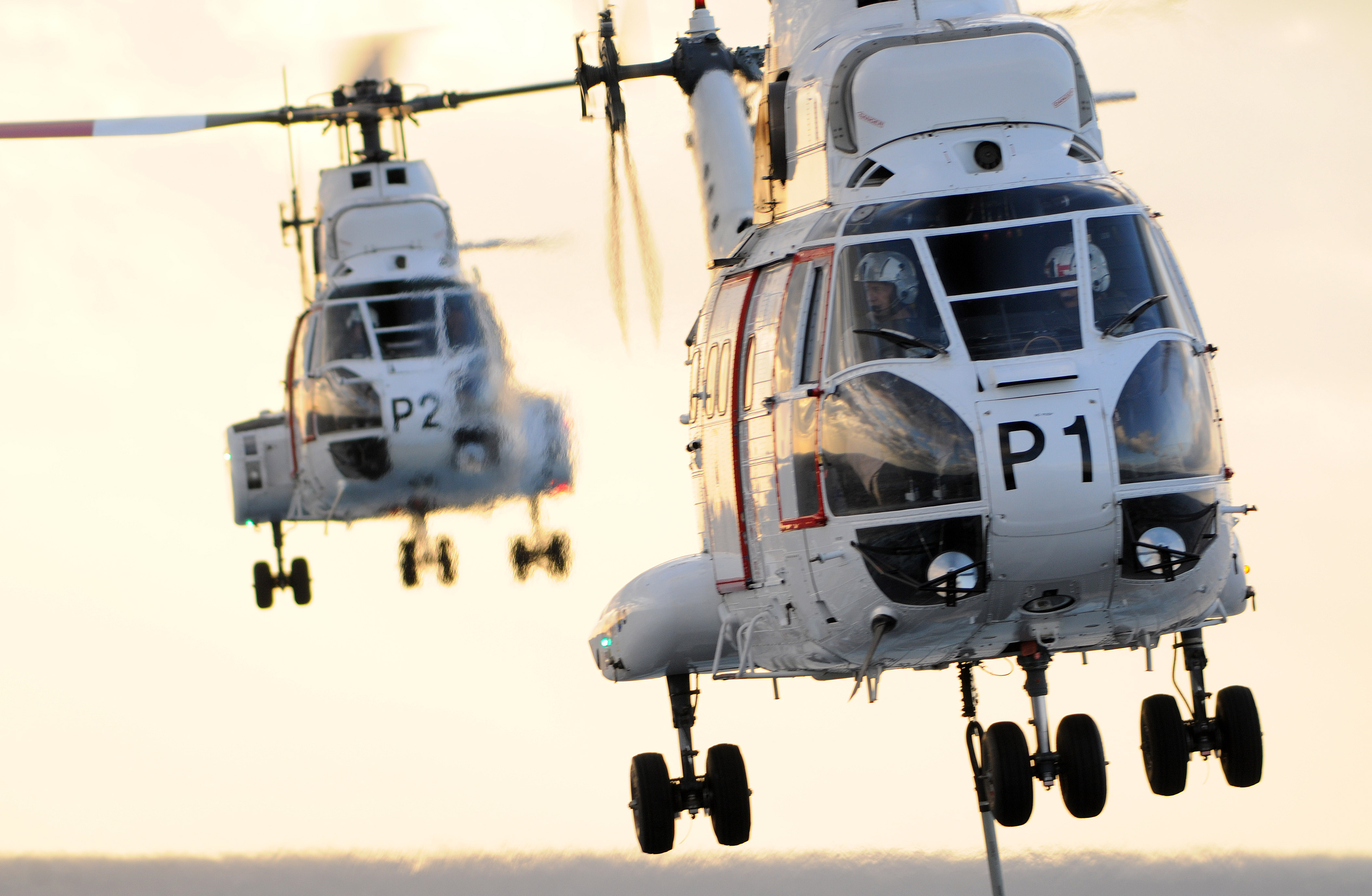 PACIFIC OCEAN (Nov. 21, 2011) Two SA-330J Puma helicopters from the Military Sealift Command dry cargo and ammunition ship USNS Amelia Earhart (T-AKE 6) take turns transferring munitions from the aircraft carrier USS George Washington (CVN 73) during a vertical replenishment. George Washington is conducting a patrol in the western Pacific Ocean. (U.S. Navy photo by Mass Communication Specialist 3rd Class David A. Cox/Released)